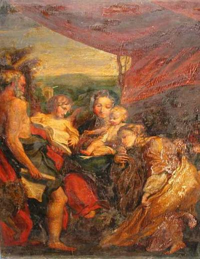 EMMA JANE GREENLAND HOOKER (1760-1843)Madonna and child with Saint John and cherub Guess 1830